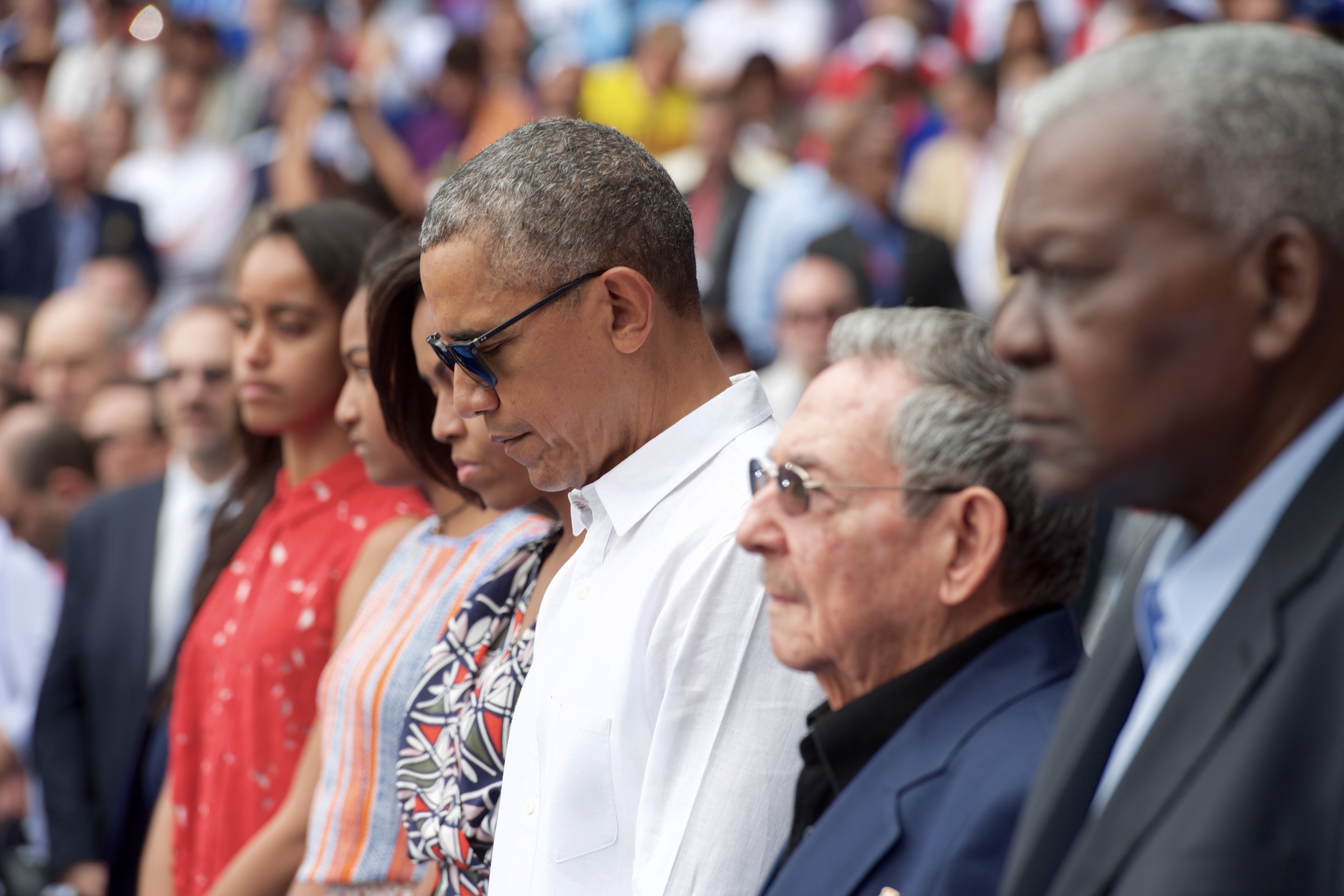 U.S. President Barack Obama, flanked by First Lady Michelle Obama, their daughters Sasha and Malia, and Cuban President Raul Castro, bow for a moment of silence at the Estadio Latinoamericano in Havana, Cuba, as they, members of a U.S. delegation including U.S. Secretary of State John Kerry, and the rest of the crowd pay their respects to the victims of a terrorist attack in Belgium before an exhibition game on March 22, 2016, between the Cuban National Baseball Team and the Tampa Bay Rays. [State Department photo/ Public Domain]